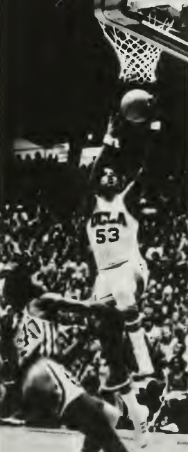 Larry Hollyfield of UCLA Bruins shooting during 1972–73 season